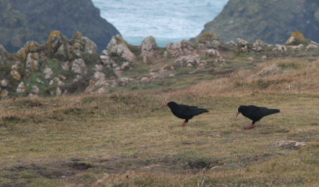 Choughs at Kynance A pair of unringed choughs on the clifftop above Kynance Cove. Choughs have returned to Cornwall in recent years after several decades of absence. Most are ringed in the nest, but this pair were unringed. Usually very shy birds, these two wandered unconcerned within 10 metres, busy searching for bugs in the grass.